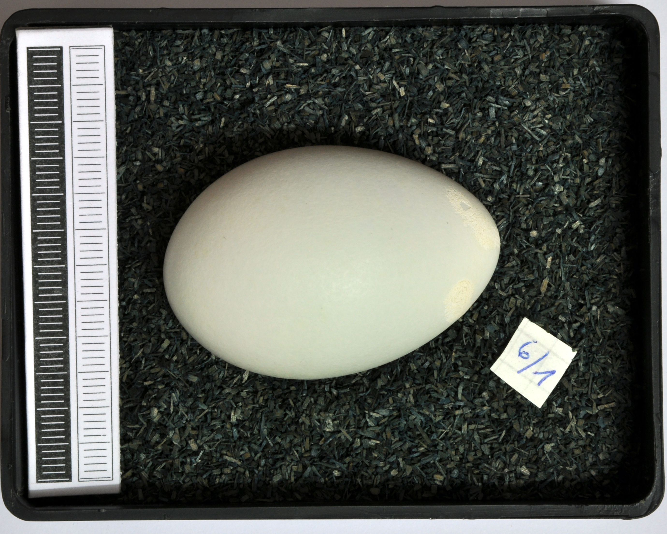 Red-necked grebe Podiceps grisegena , egg, Coll. Museum Wiesbaden, leg. W. Abelmann